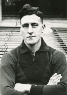 Photo of Billy Deans taken before 1950